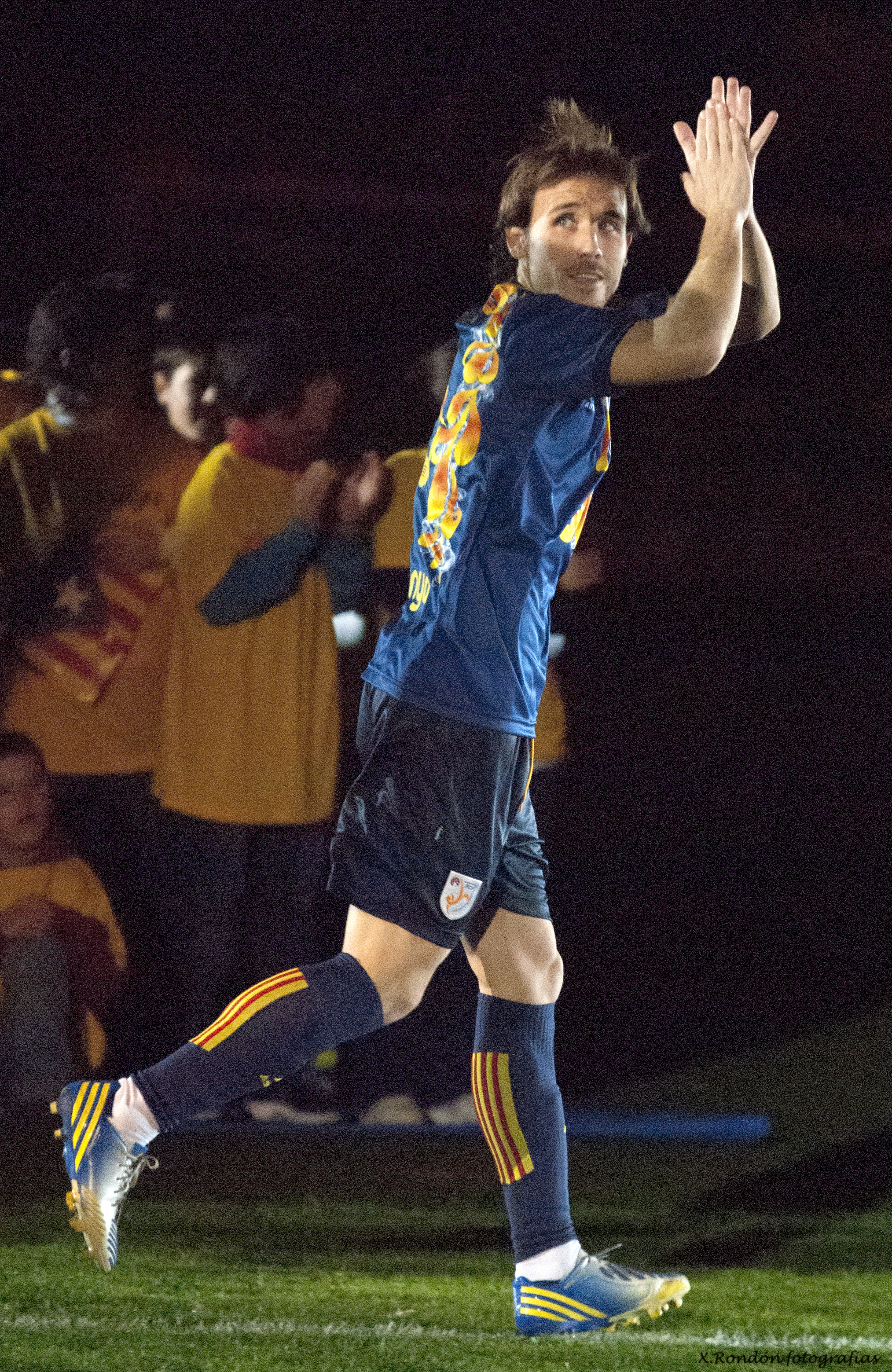 Joan Verdú before friendly match Catalonia vs. Nigeria